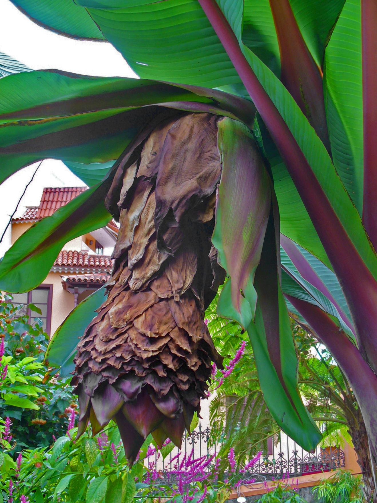 Ensete ventricosum, Musaceae, False Banana, Ethiopian Banana, Abyssinian Banana, infrutescence; Hijuela del Botanico, La Orotava, Tenerife, Spain.